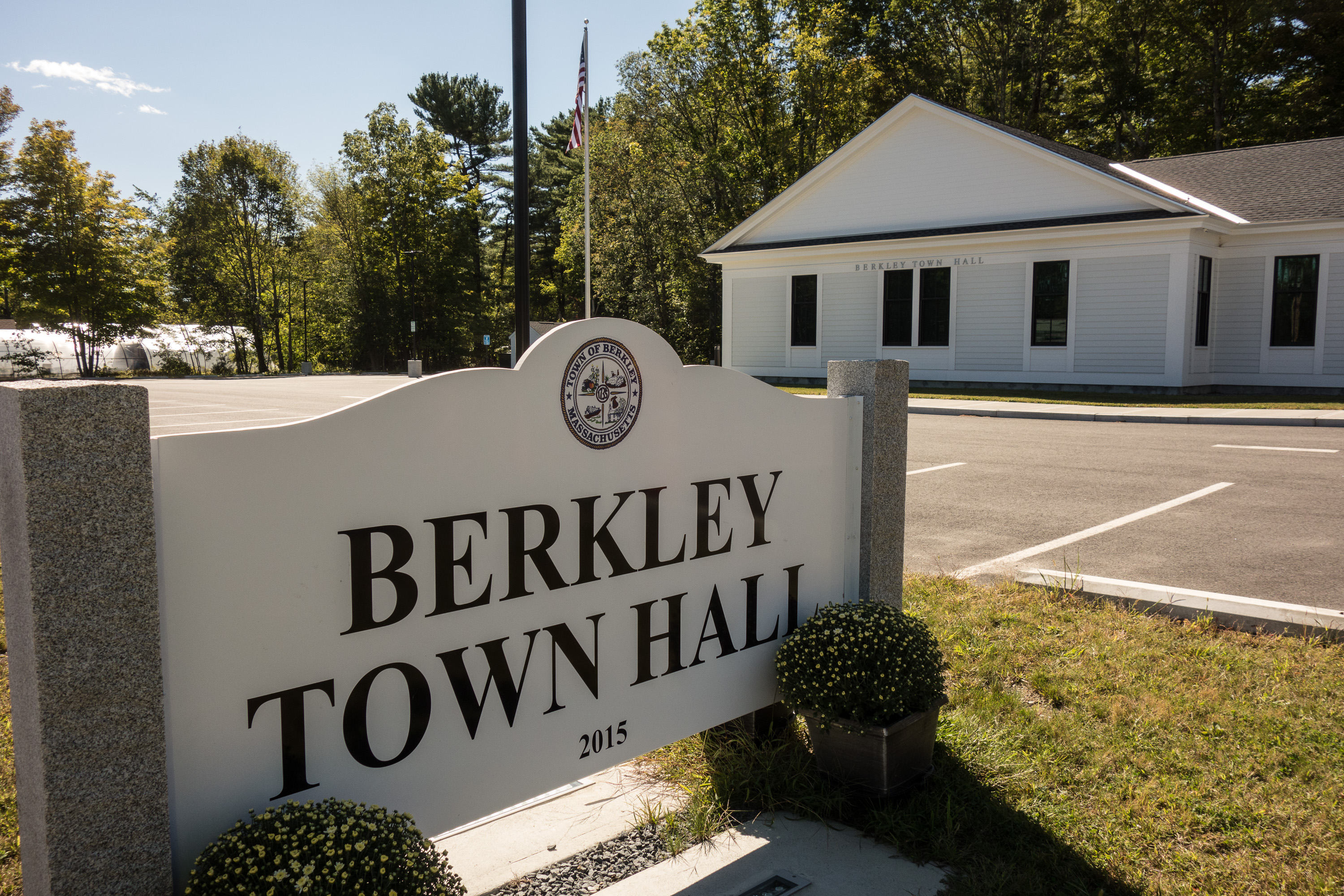 Berkley Town Hall. Part of Berkley Common (Massachusetts) NRHP 15000980